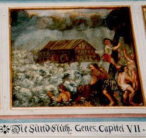 Lutheran church of Marktgemeinde Heiligenstadt near Bamberg (Upper Franconia) in Germany